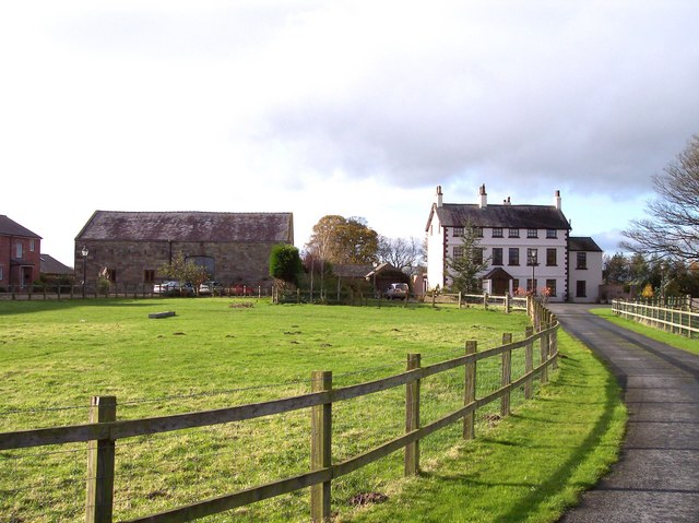 Catterall Hall, near to Churchtown, Lancashire, Great Britain.